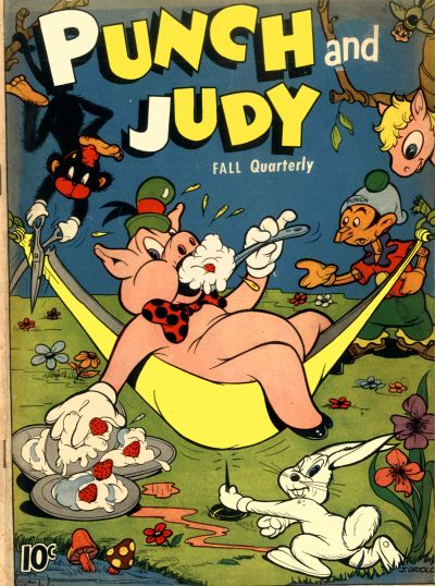 Cover of Punch and Judy Comics vol. 1 #2, Fall 1944